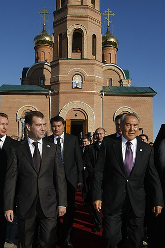 AKTYUBINSK. With President of Kazakhstan Nursultan Nazarbayev at the St. Nicholas Orthodox church.